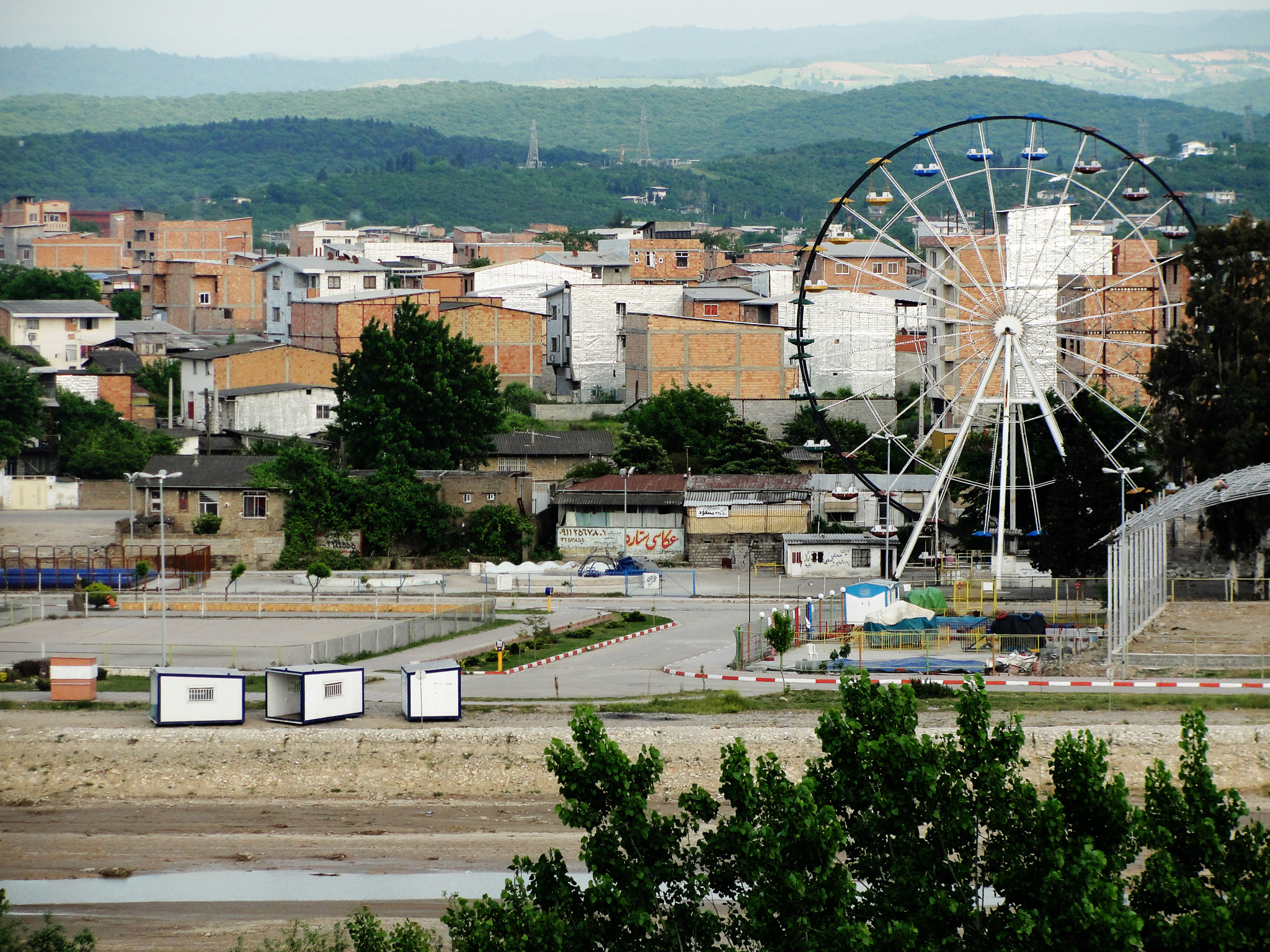 Tagan Park in Sari, Mazandaran